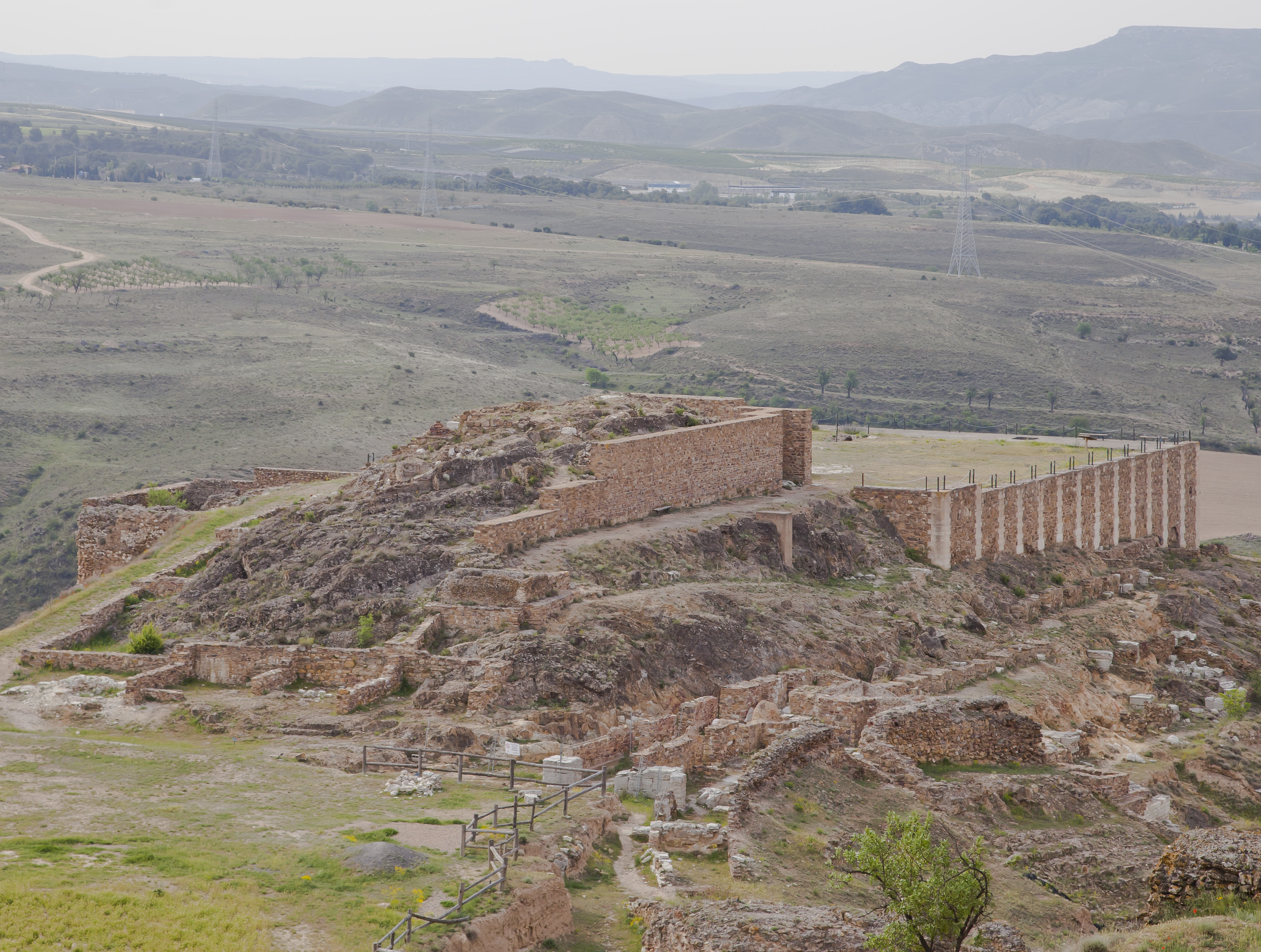 Ruins of the ancient roman city of Bilbilis, Calatayud, Spain